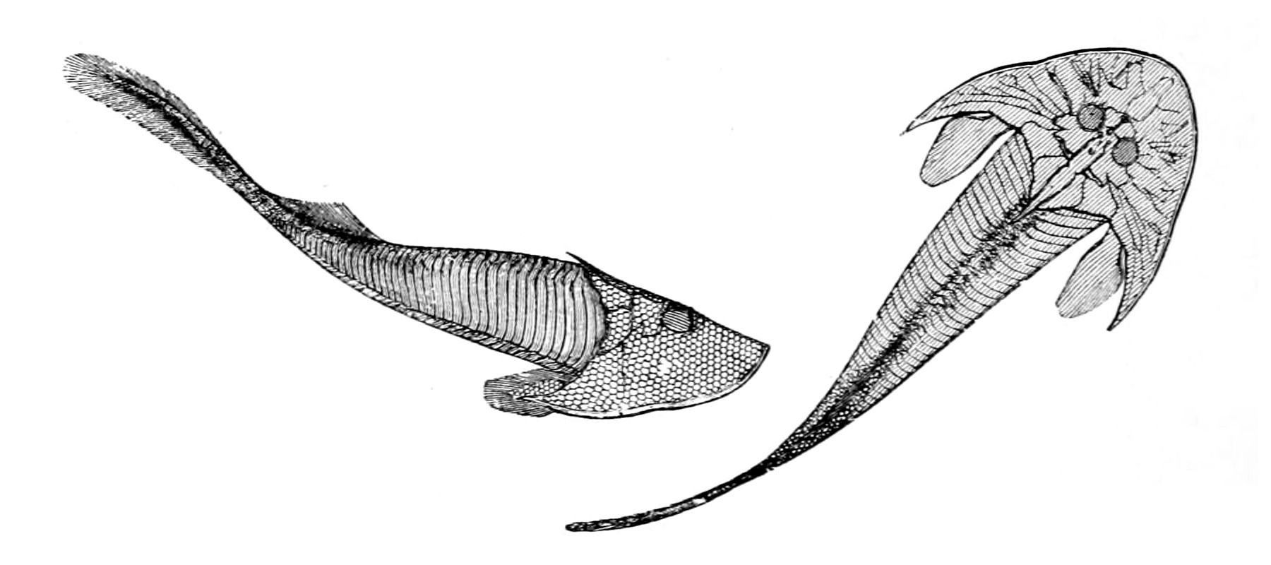 Cephalaspis lyellii (Old Red Sandstone, Scotland).